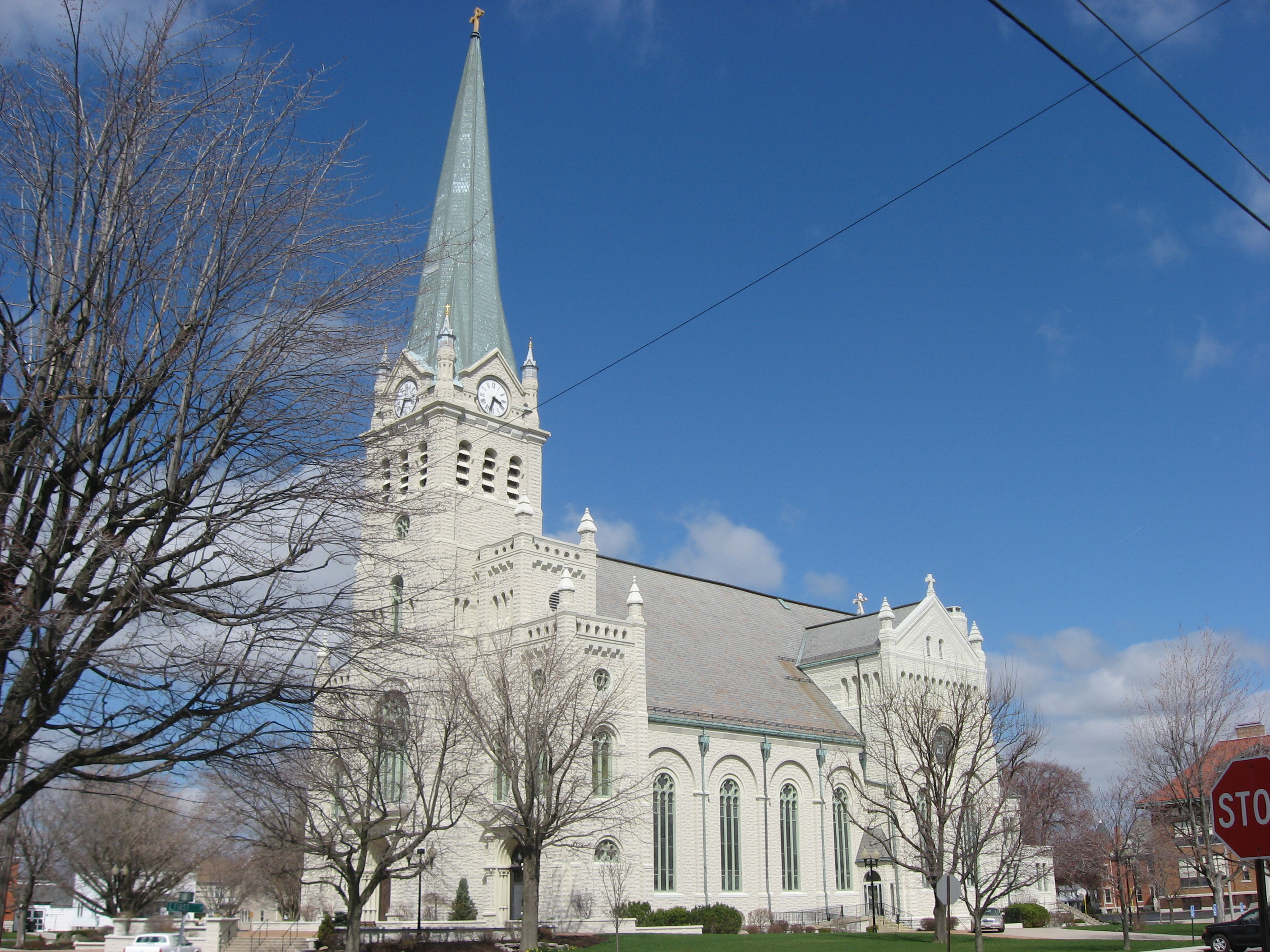 Southern side and front of St. John the Evangelist Catholic Church, located at 110 N. Franklin Street in Delphos, Ohio, United States. Built in 1880, it is listed on the National Register of Historic Places.